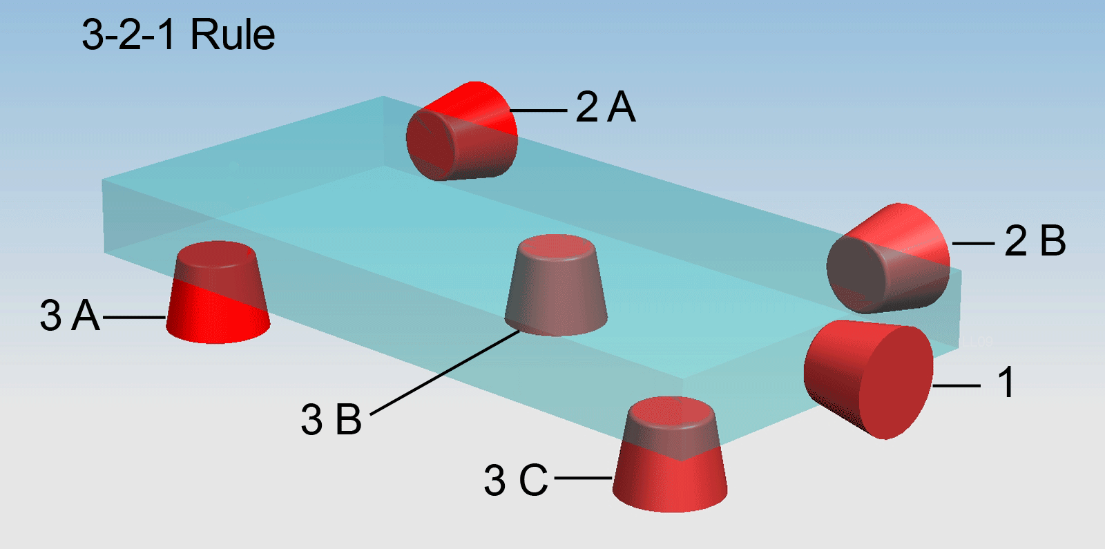 Visualization of the 3-2-1 Rule. The rule defines the minimum number of contact points necessary to properly locate a part.